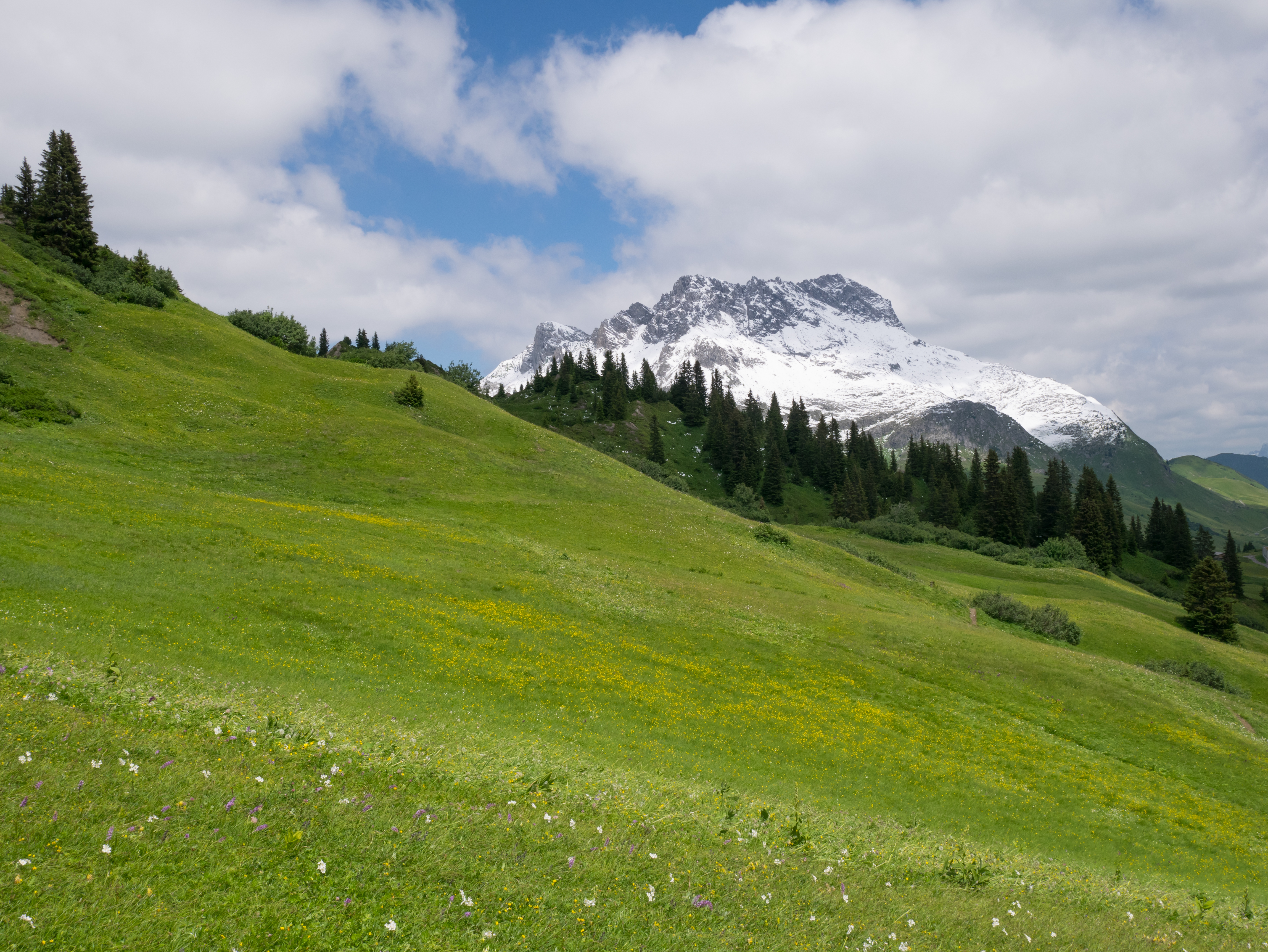 Alpine pasture and mountain Karhorn. Lech, Vorarlberg, Austria